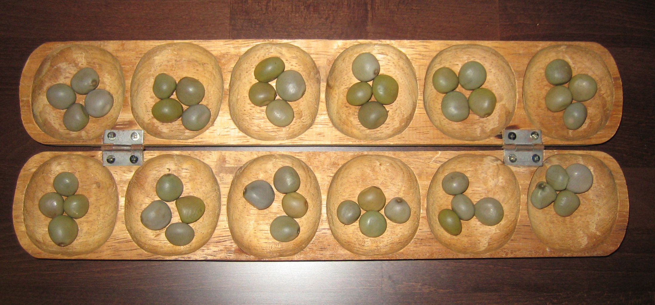 Picture of Capo Verde Ouril